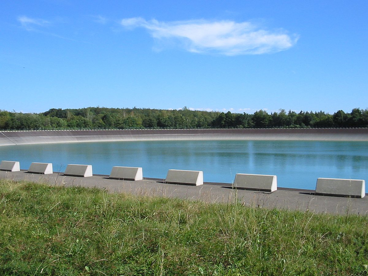 Upper basin of the Glems hydroelectric plant